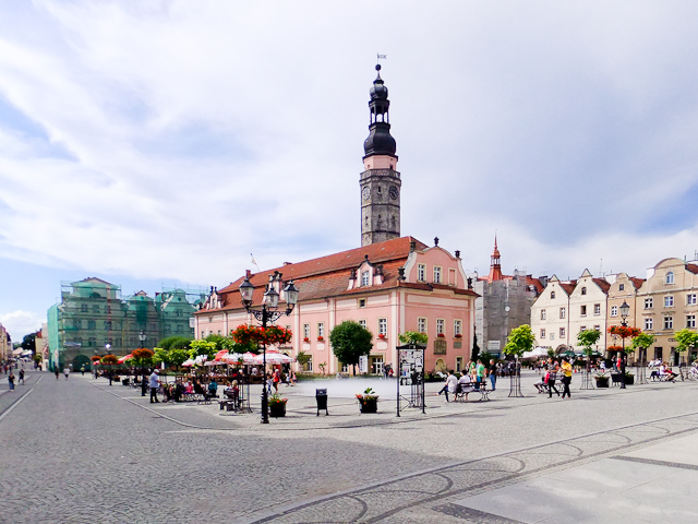 Bolesławiec, marketplace, city hall